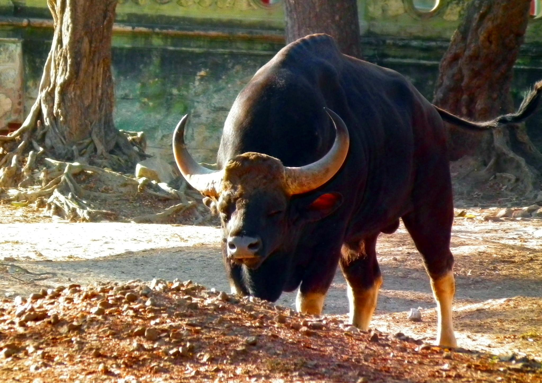 The gaur (Bos gaurus), also called Indian bison, is a large bovine native to South Asia and Southeast Asia. The species is listed as vulnerable on the IUCN Red List since 1986 as the population decline in parts of the species' range is likely to be well over 70% over the last three generations. Population trends are stable in well-protected areas, and are rebuilding in a few areas which had been neglected